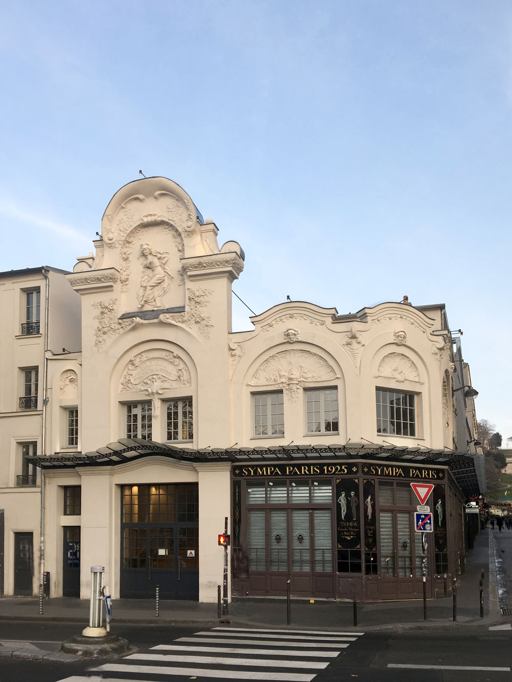 The facade of the theater Elysée Montmartre in Paris